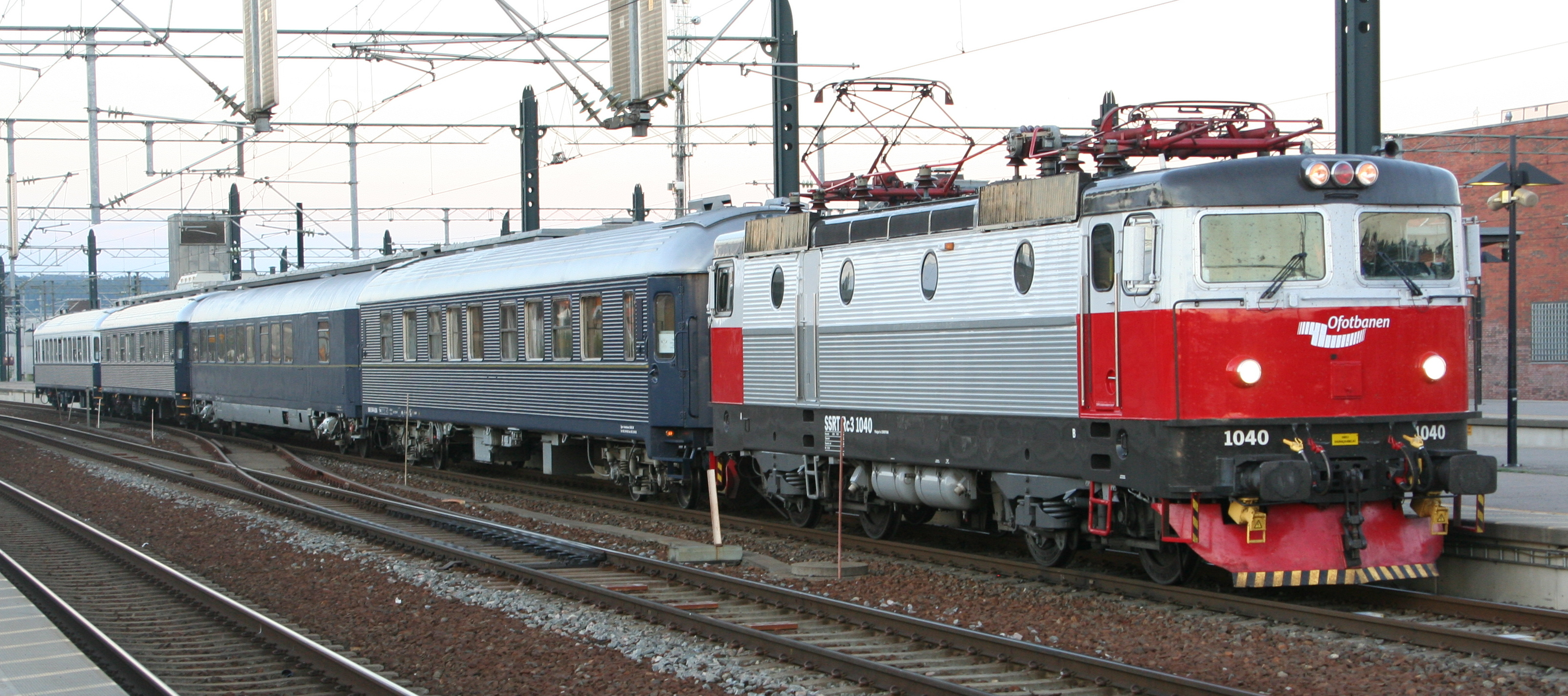 The Unionsexpressen train (going from Stockholm to Oslo) at Lillestrøm station